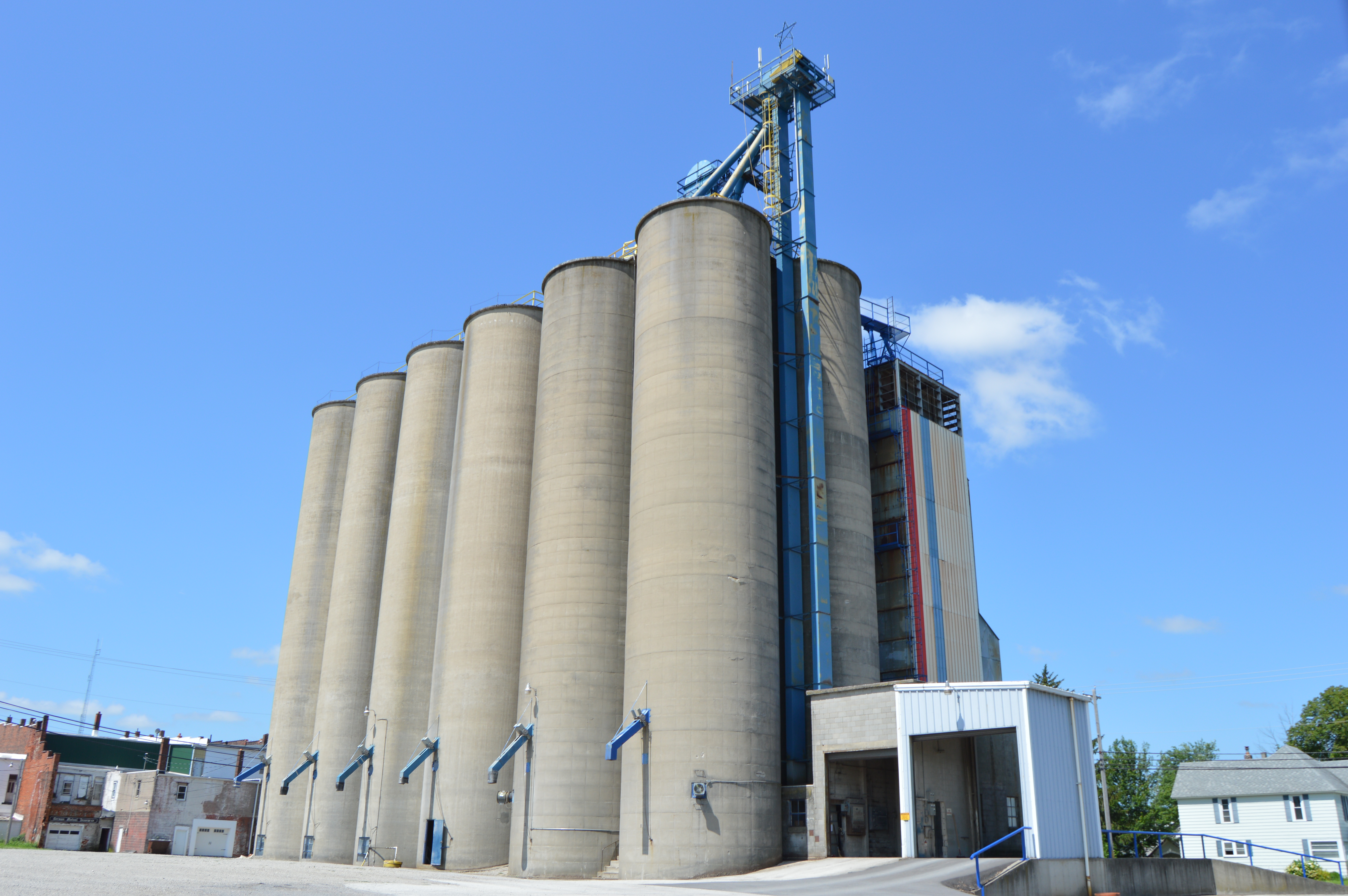 View from the northeast of the community grain elevator in Deshler, Ohio, United States, located on Maple Street east of Keyser Street.